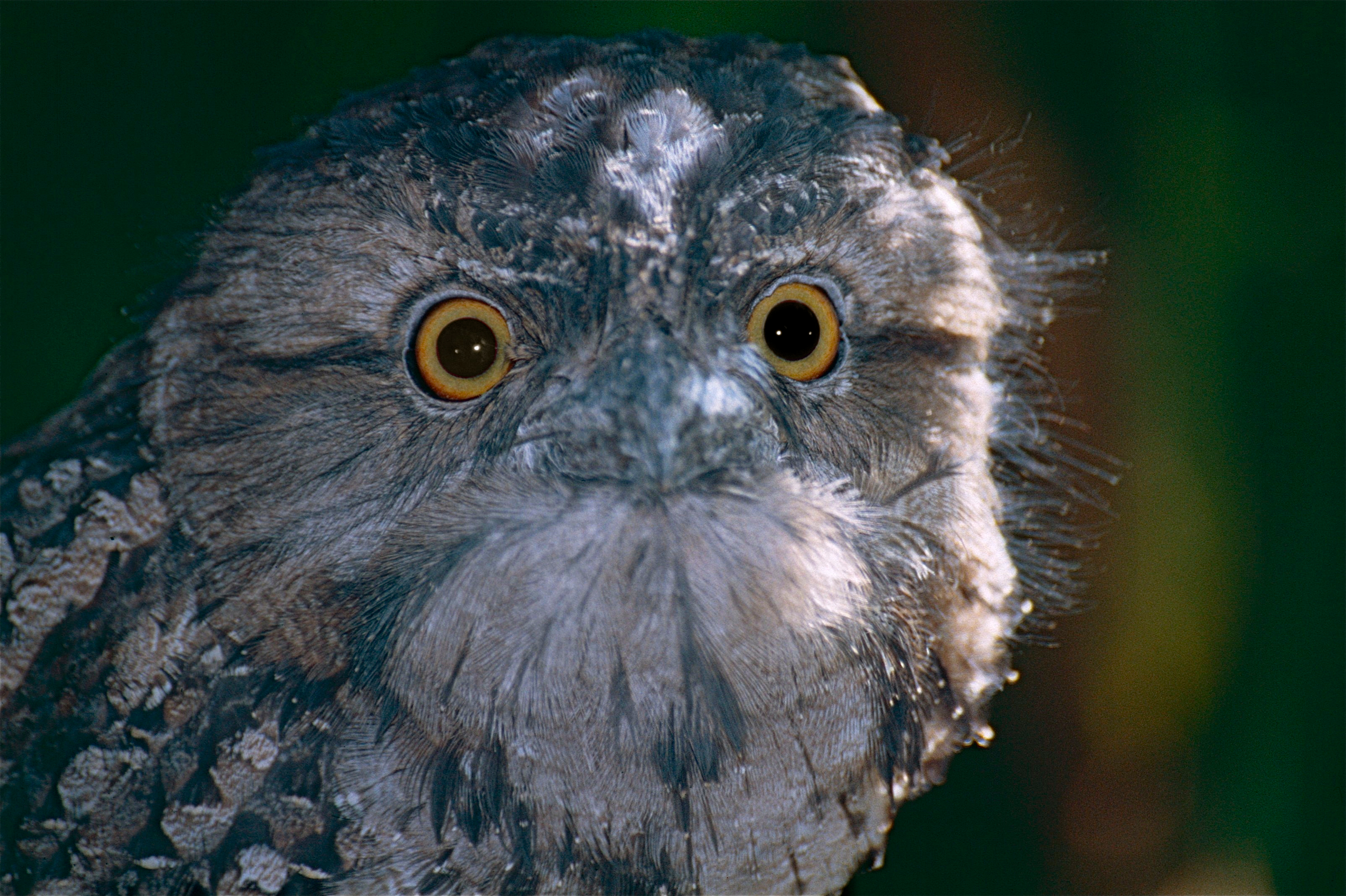 David Fleay Wildlife Park, Burleigh Heads, Gold Coast, South Queensland, AUSTRALIA Scanned Slide from Dec 2000